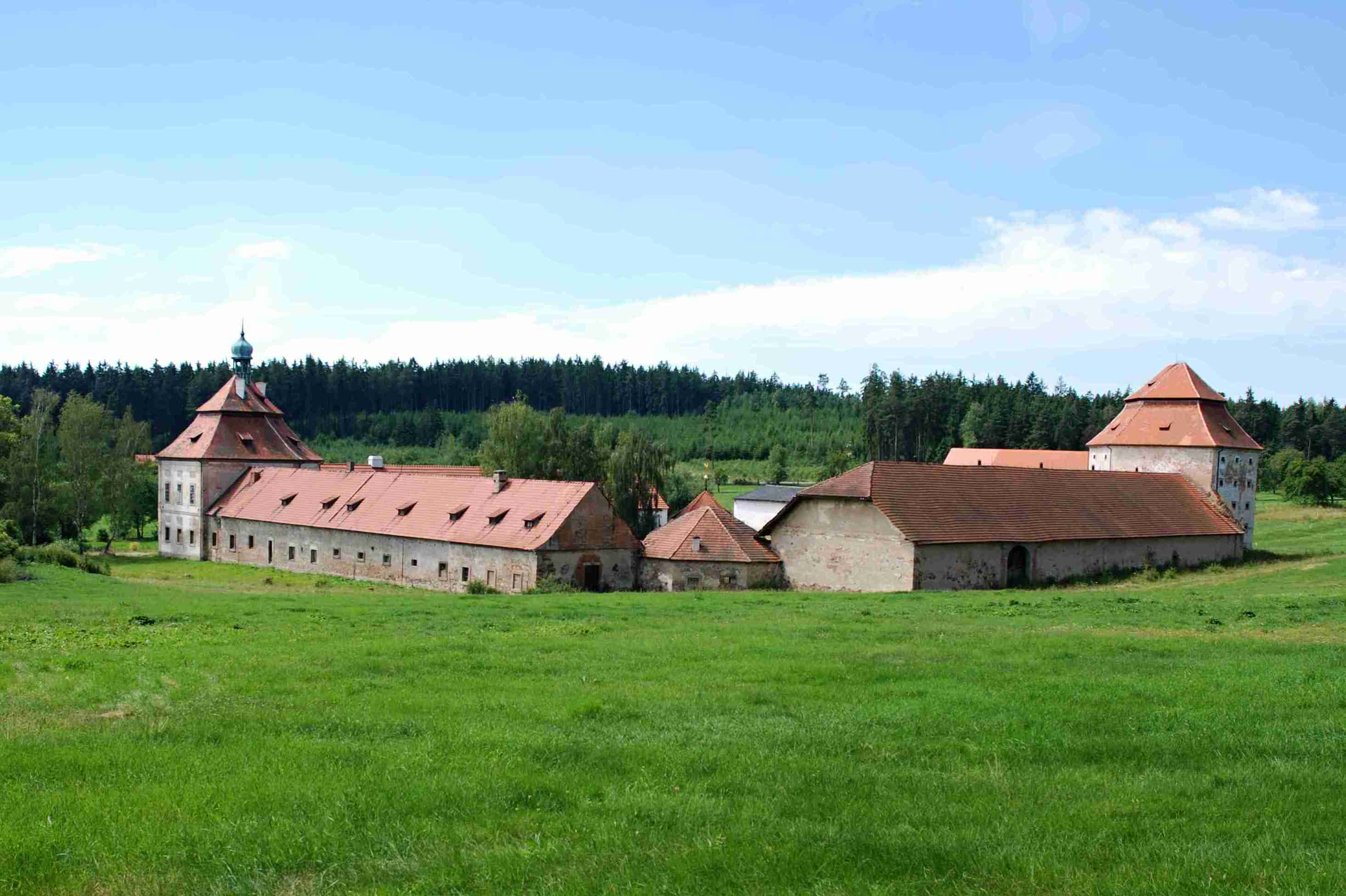 Hubenov - defunct farm of Cisterciaci Česky: Hubenov - zaniklý hospodářský dvůr kláštera v Plasech